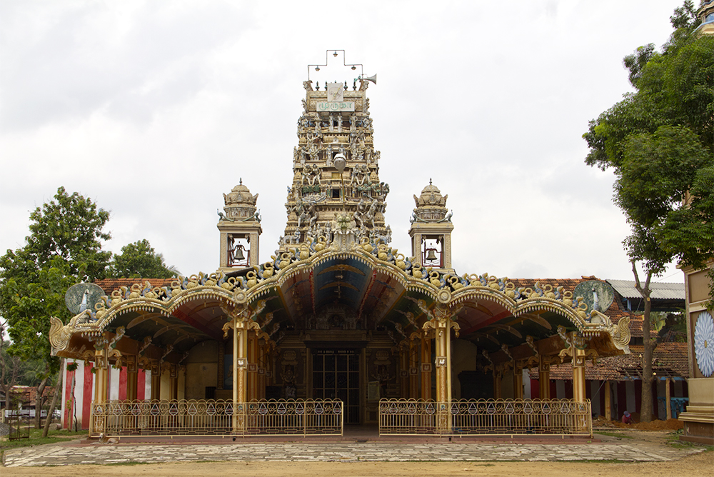 Murugan Temple in Kokkuvil, Jaffna, Srilanka